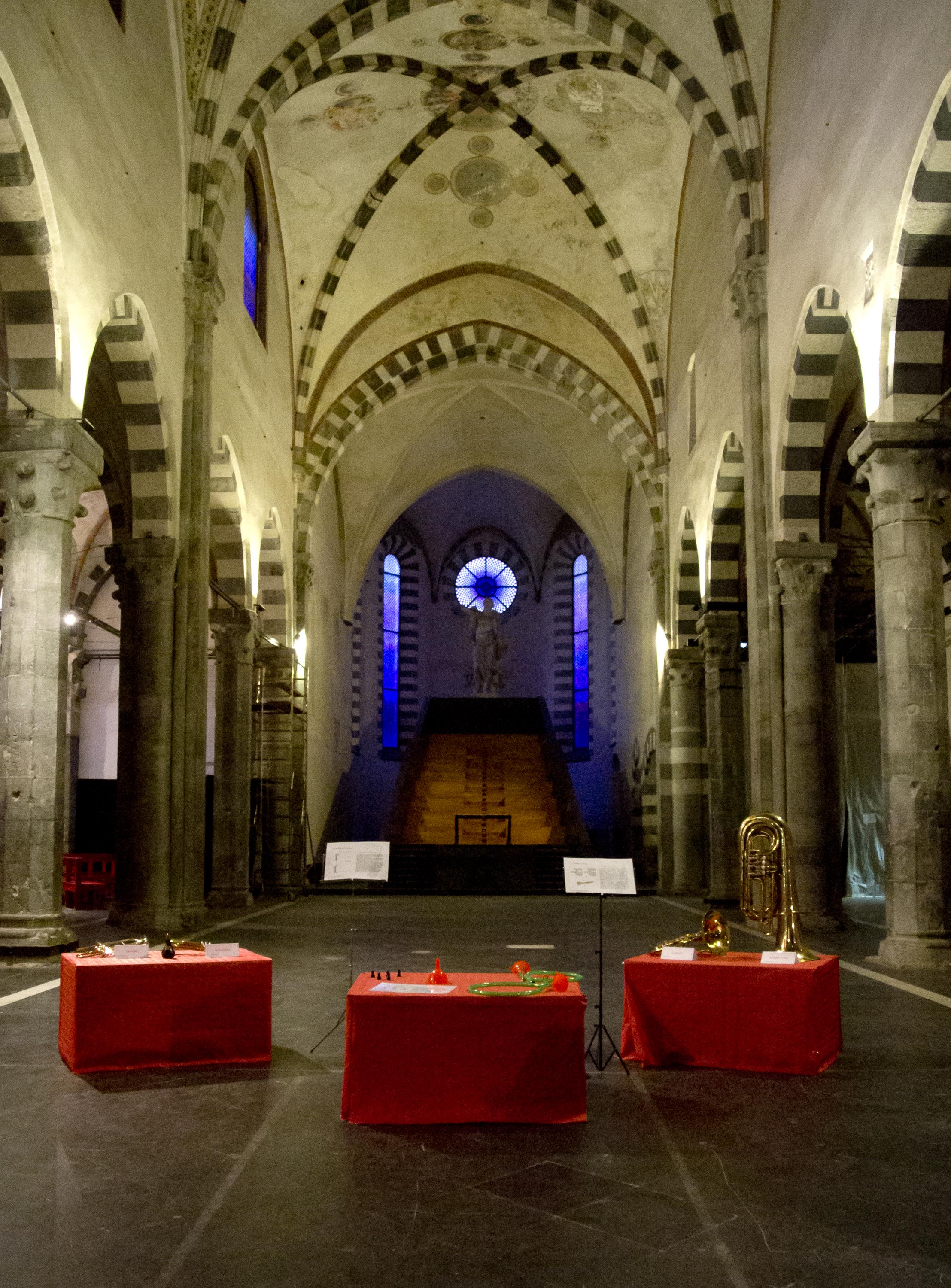 Interior of the Church of Saint Augustine in Genoa, Italy.